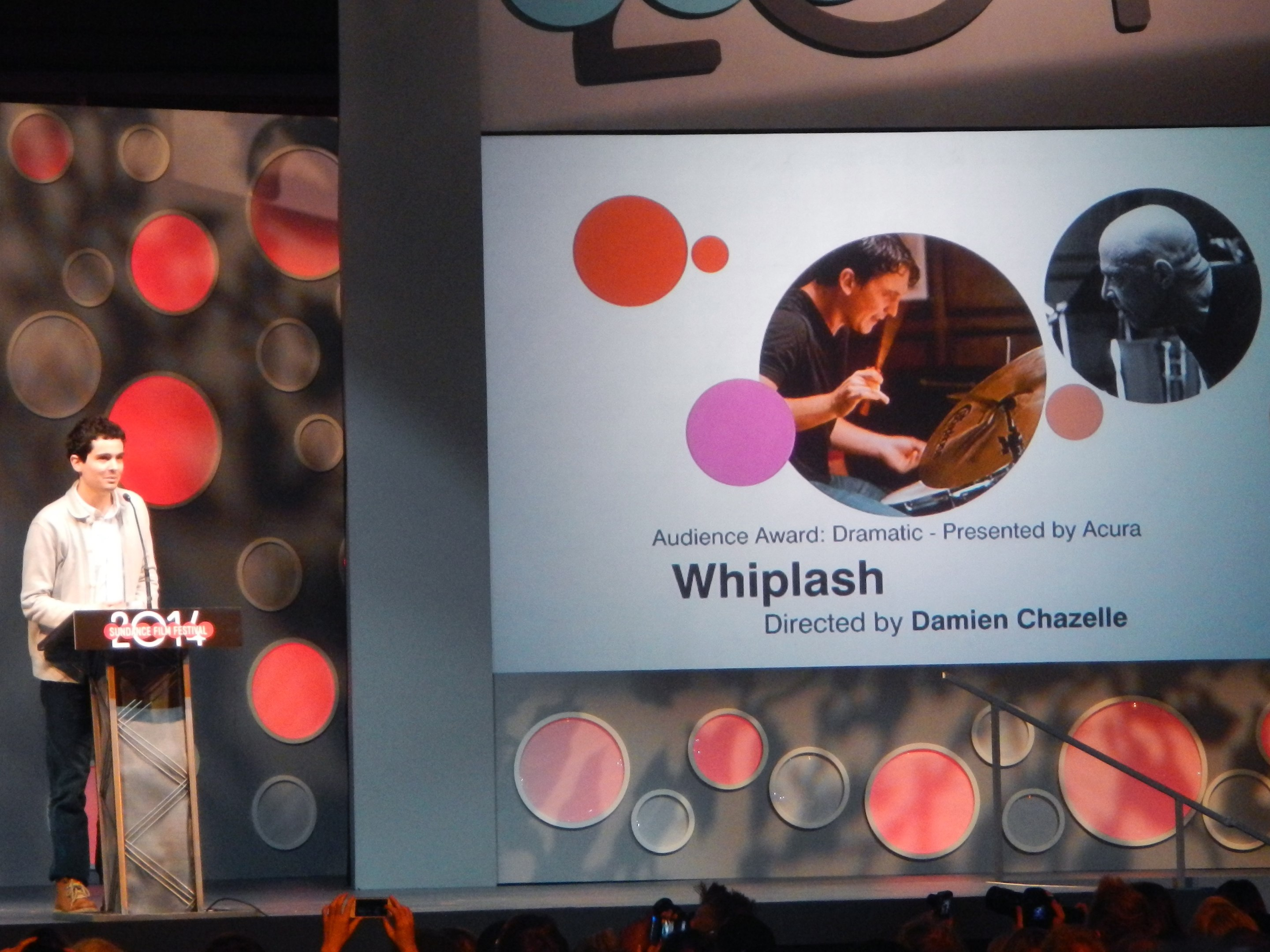 Damien Chazelle at the Sundance 2014 Awards Ceremony